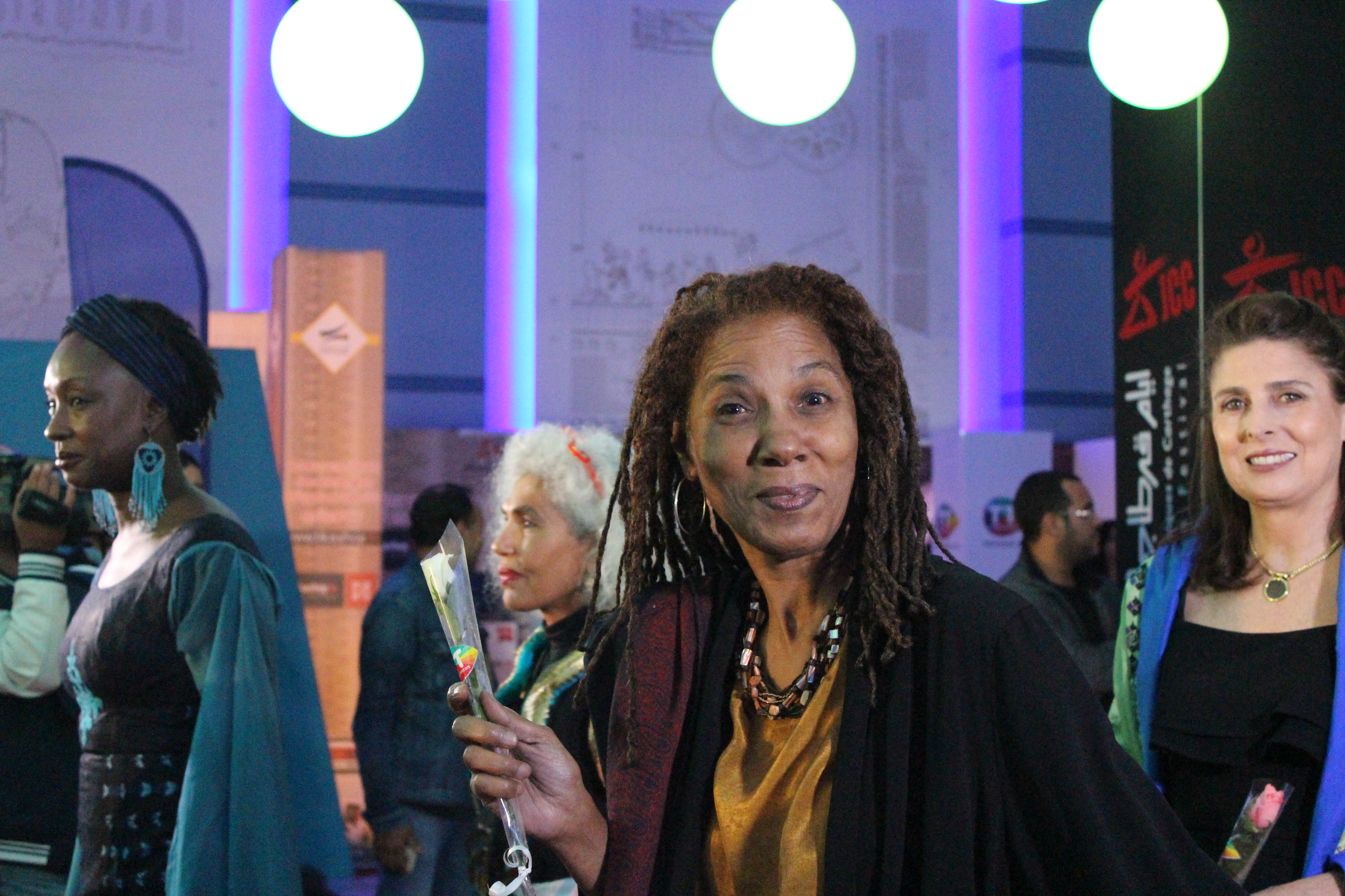 Maimouna N'Diaye, Beti Ellerson and Mai Masri at the opening ceremony of the Carthage film Festival 2018